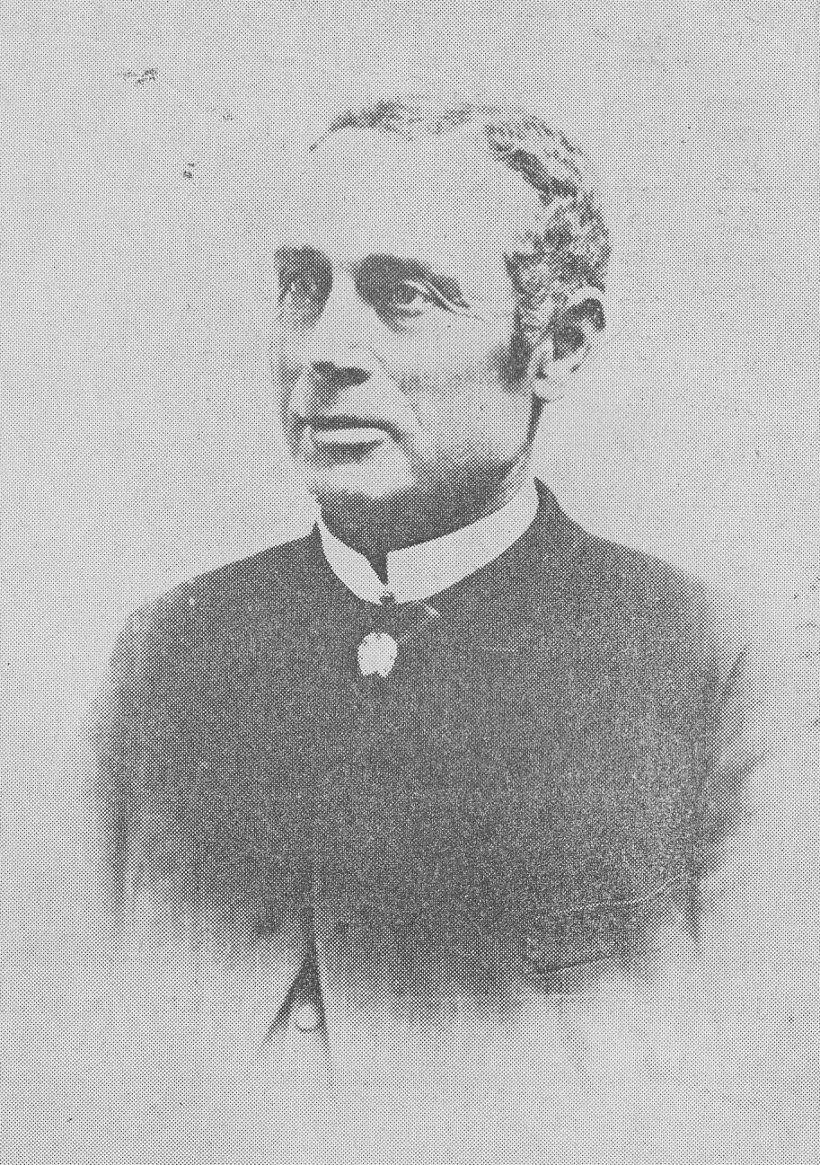 English trainer, naturalized italian, Thomas Rook.